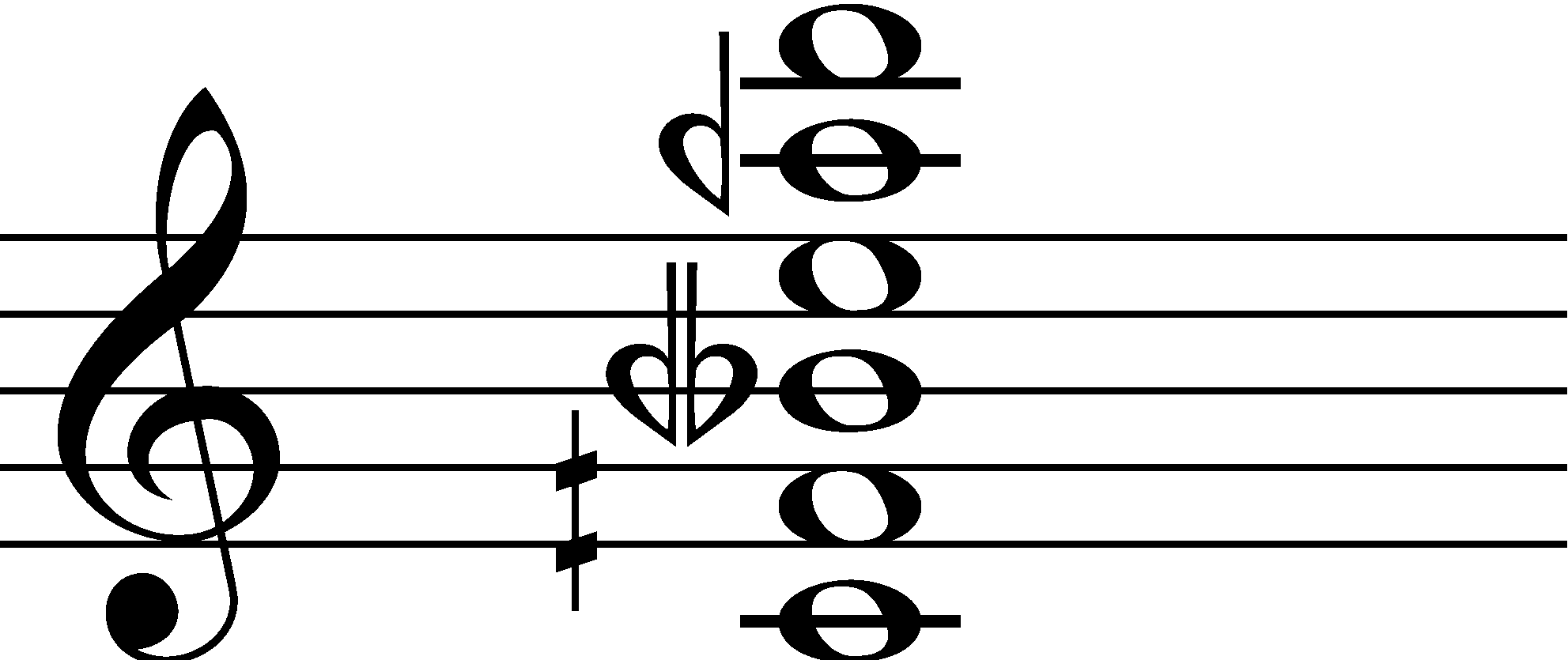 Mystic chord on C as the 1, 11, 7, 5, 13, and 9th harmonics (harmonics 8 through 14, without 12). 24-tet approximation.